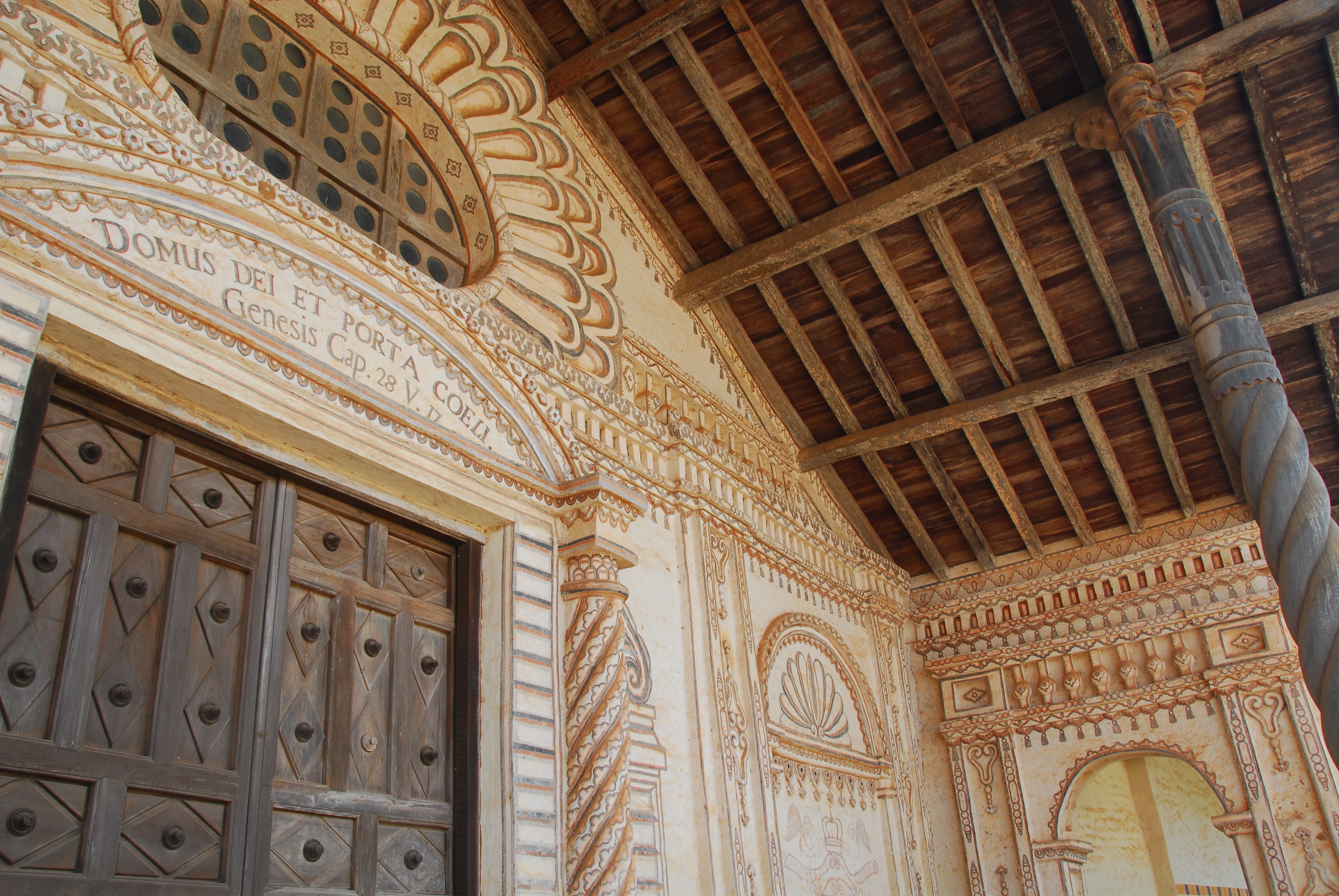 front porch of the church in San Javier, Ñuflo de Chávez, Santa Cruz, Bolivia. Part of the Jesuit Missions of the Chiquitos World Heritage Site.